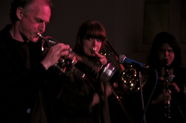 Oddfellows Casino at Unitarian Church